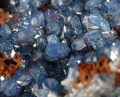 Scorodite Locality: Ojuela Mine, Mapimí, Municipio de Mapimí, Durango, Mexico (Locality at ) Size: 8 x 5.5 x 4 cm. Ojuela produced, rarely, beautiful blue scorodites of substantial appeal. This is a large plate for the location, with dozens of sharp crystals to 4mm. Even though scorodite from the other Mexican location is more famous perhaps, these are just as treasured by collectorsand hard to obtain today. This specimen from the Dr Miguel Romero collection was on loan exhibition to the University of Arizona Museum for over a decade, until my purchase of this collection in 2008. It was on display in special cases at the museum, and has since been featured in the book